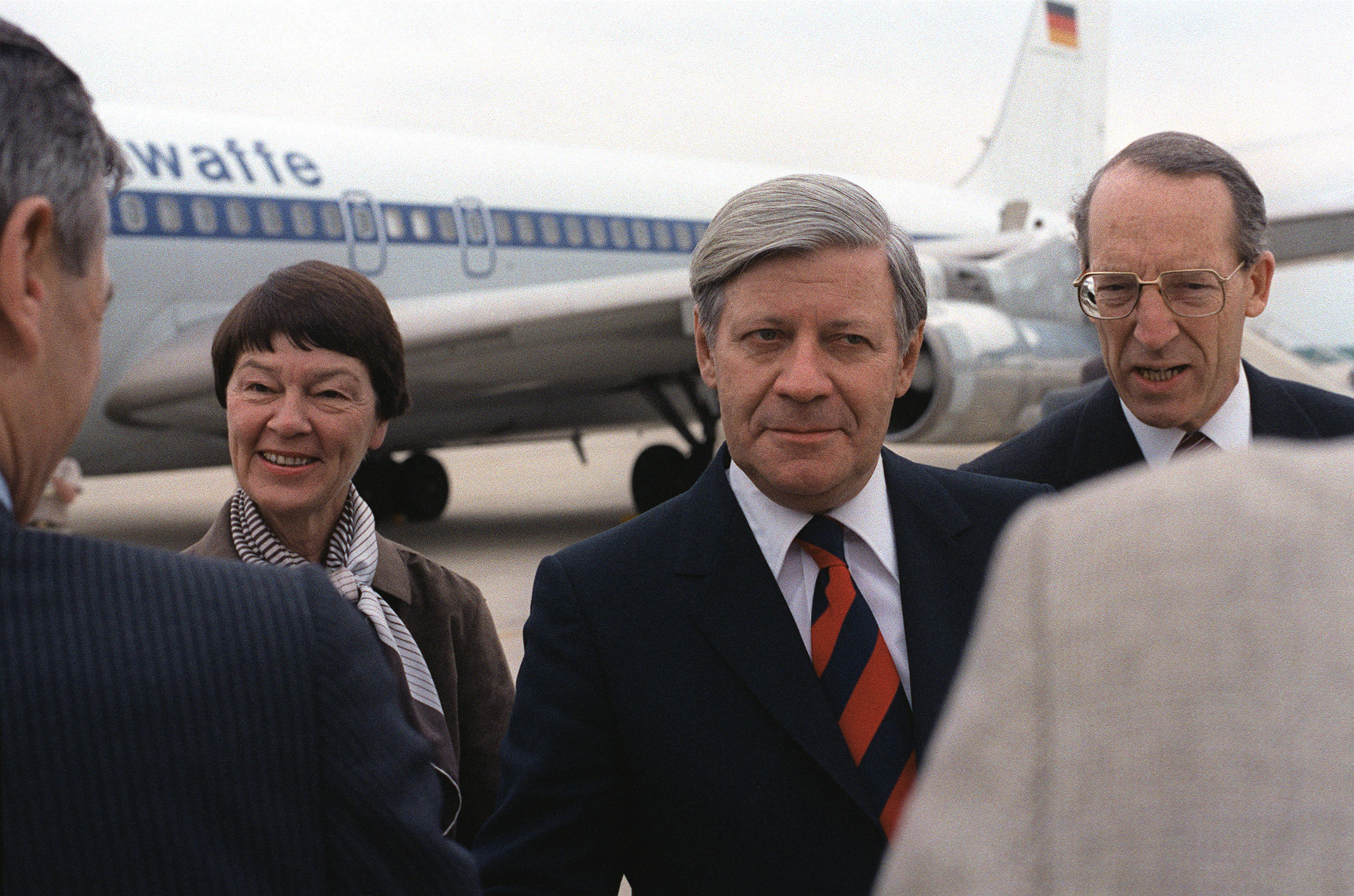 The Chancellor of West Germany Helmut Schmidt and his wife Loki are welcomed upon arrival to the United States for a visit at Andrews Air Force Base, Maryland (USA).